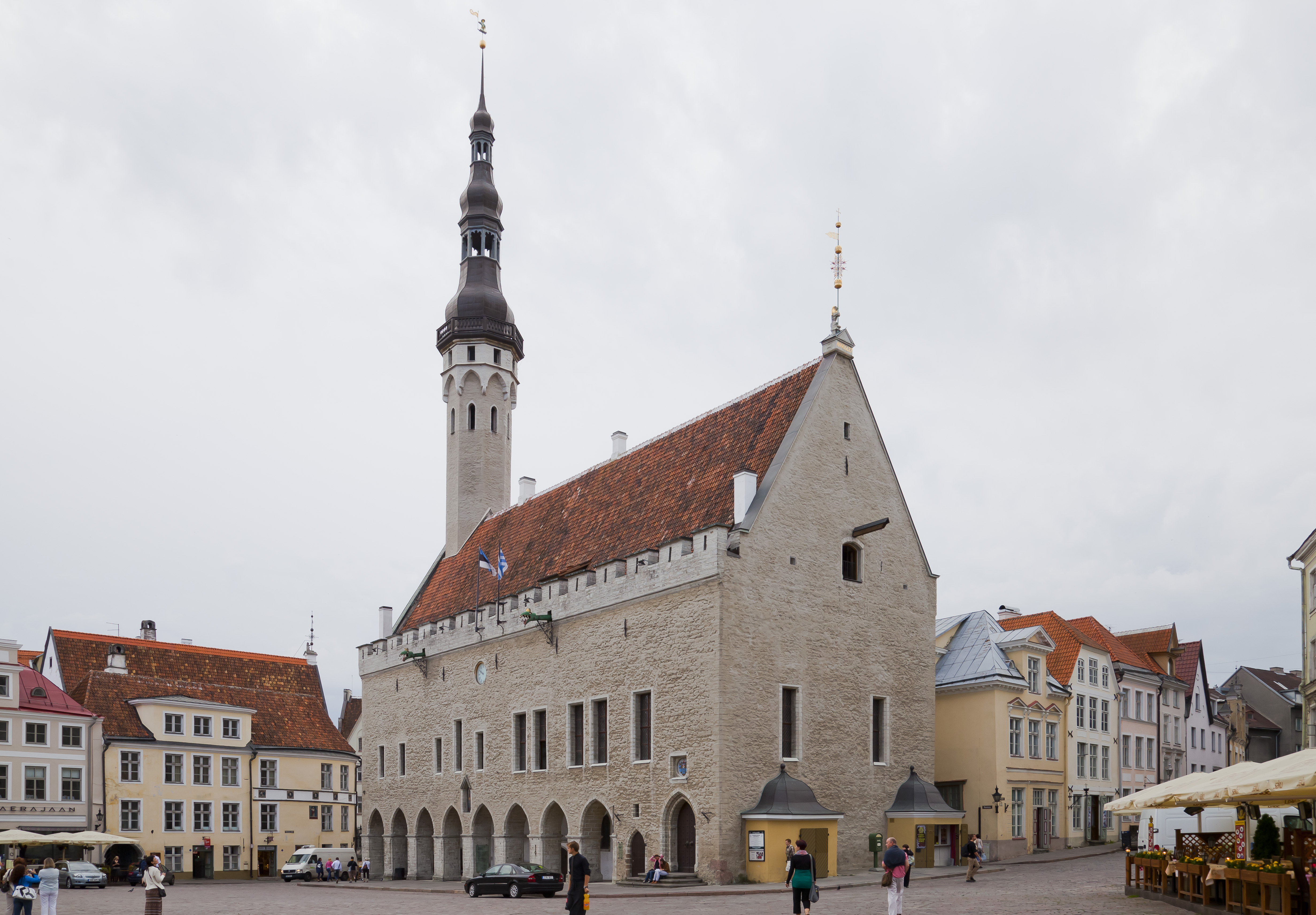 Town Hall Square, Tallinn, Estonia